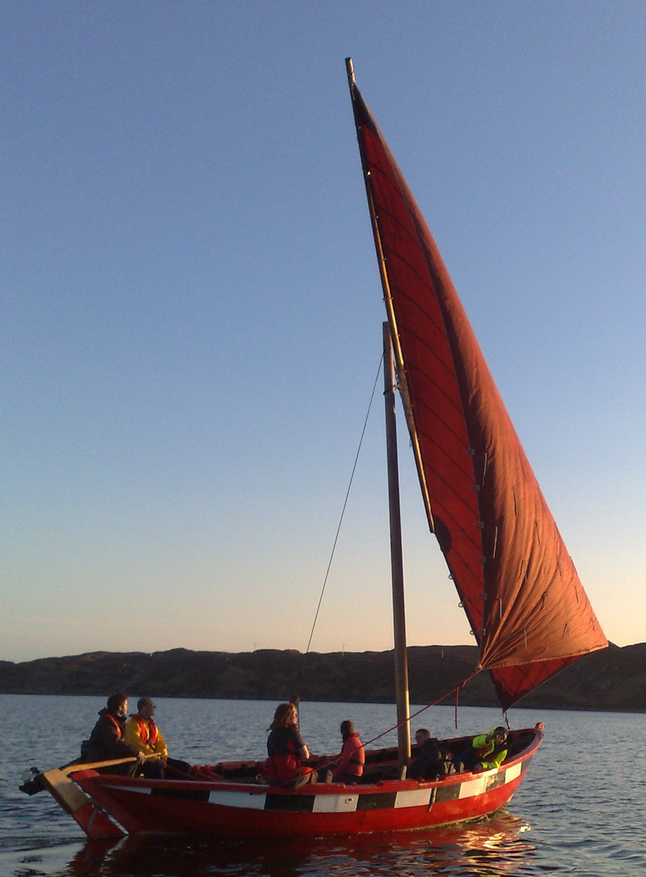 A photo of the Sgoth Niseach Jubilee in Stornoway harbour